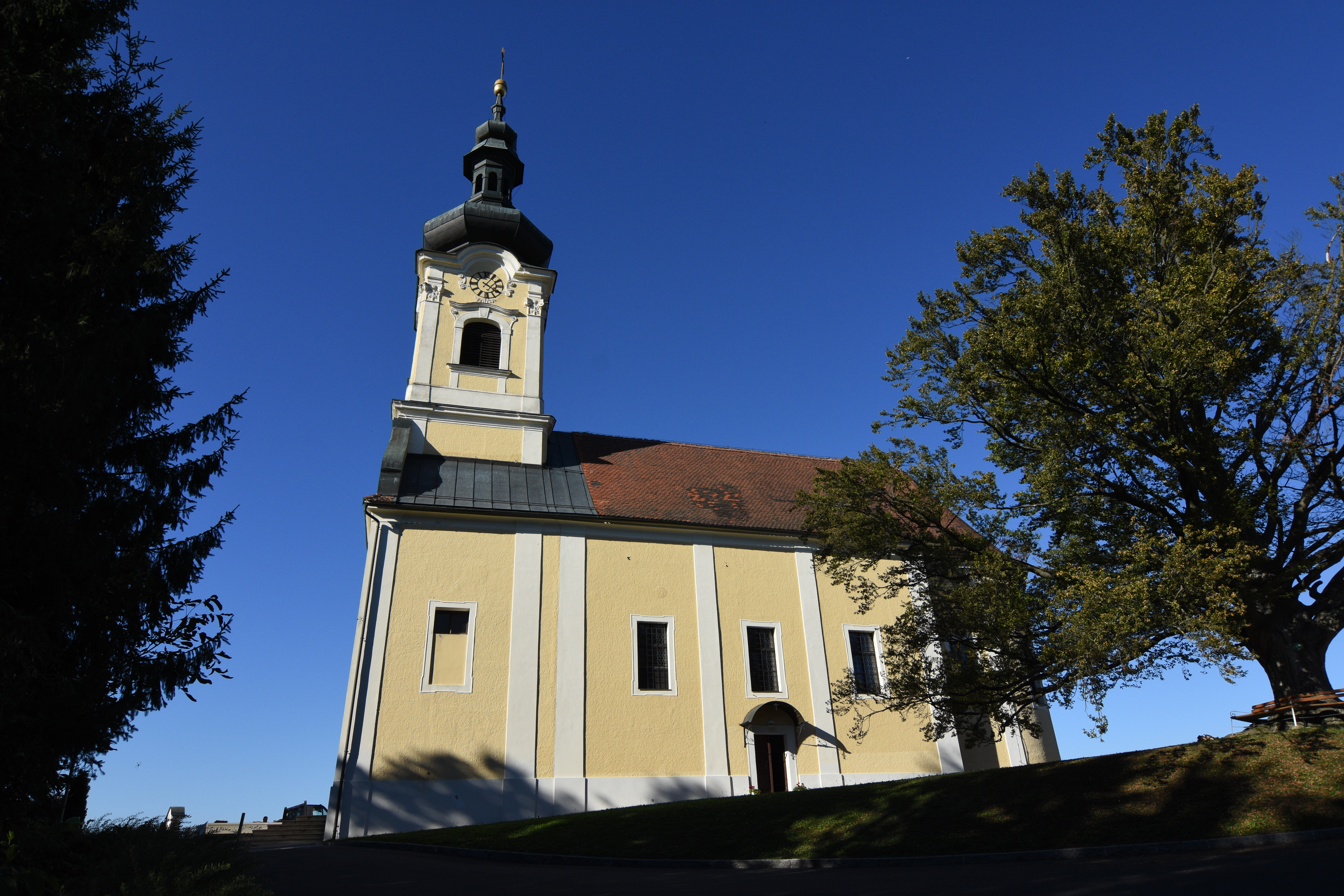 Pfarrkirche St. Martin an der Raab